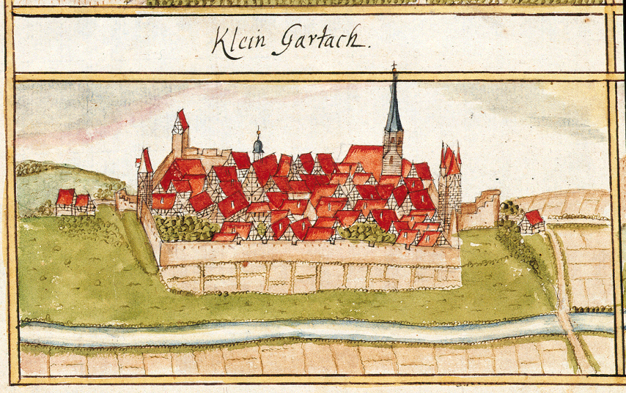 View of Kleingartach, Eppingen, from the forest register books created by Andreas Kieser